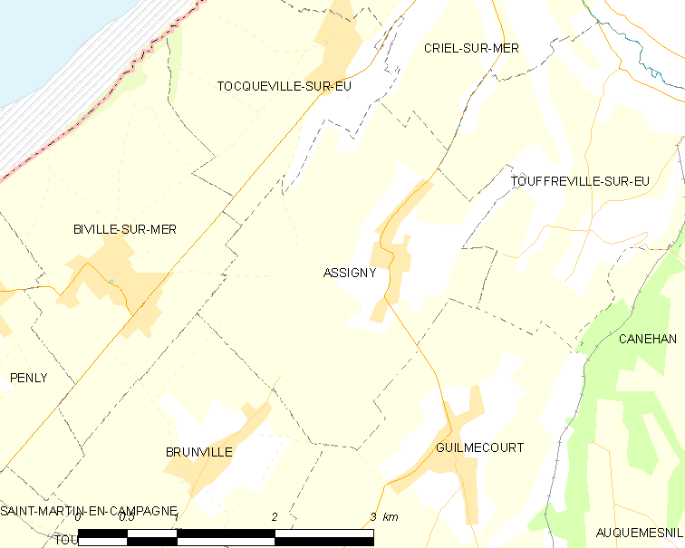 Map of French municipality Assigny